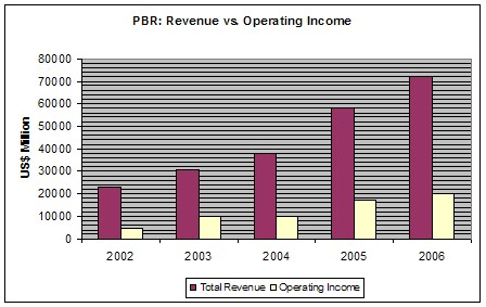 Graphic of Petrobras' revenues